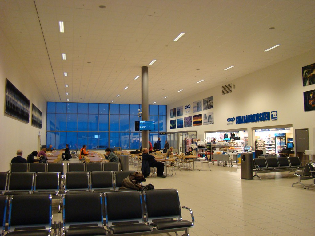 Waiting room at Svalbard Airport, Longyear